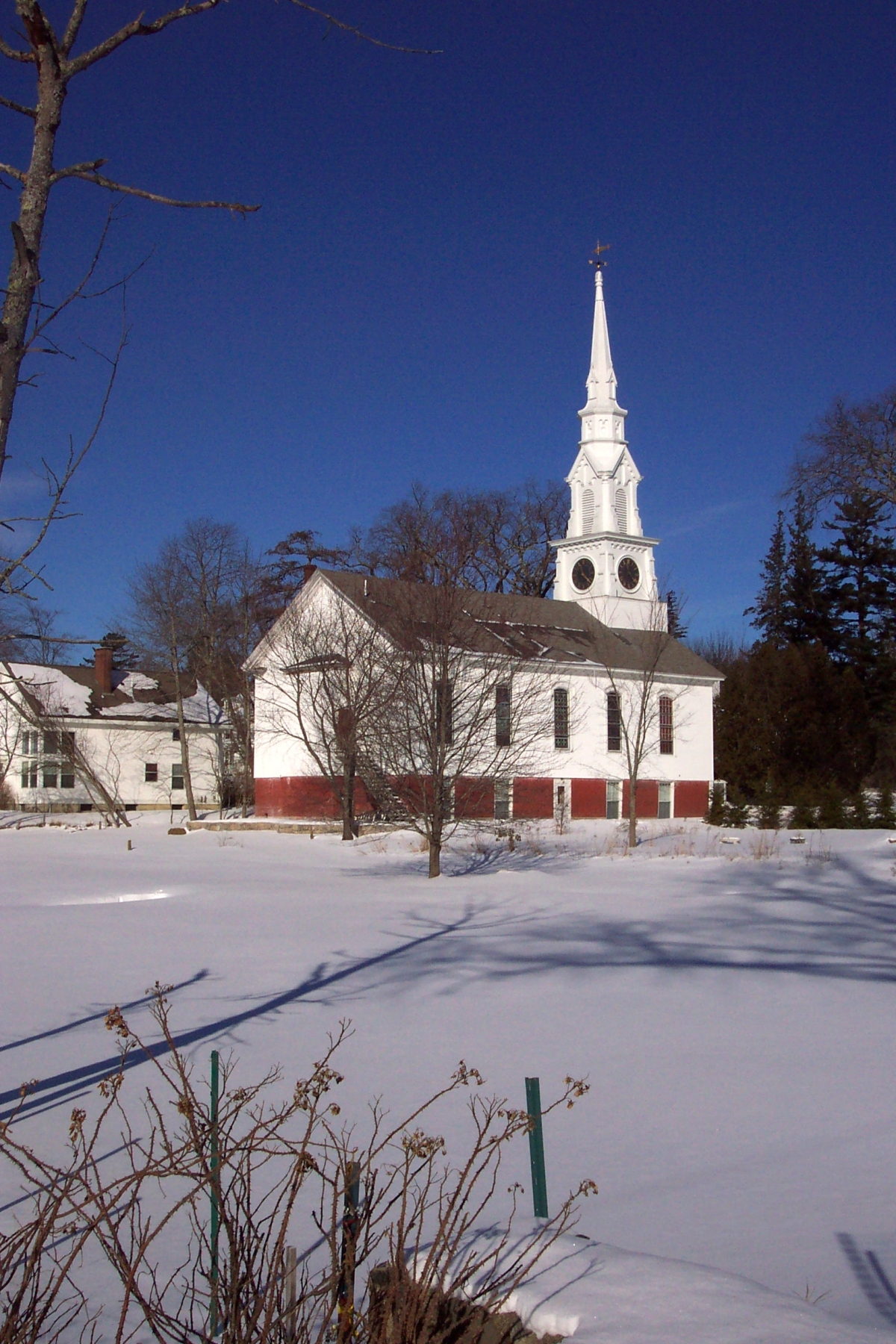 Public domain. United States - National Oceanic & Atmospheric Administration (NOAA). Image ID: line2498, America's Coastlines Collection. Photographer: Casey Theberge. Photo Date: 2003 January. Location: Castine, Maine. Caption: "Trinitarian Congregational Parish of Castine, a beautiful New England Church... Note the fish-shaped weather vane on the steeple." Found at